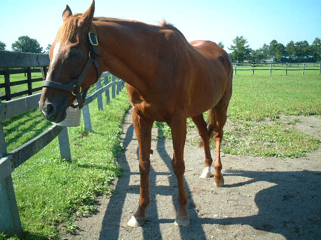 Japanese Race horse (b. 1976) Nichidouarashi in 2004, at the age of 28.